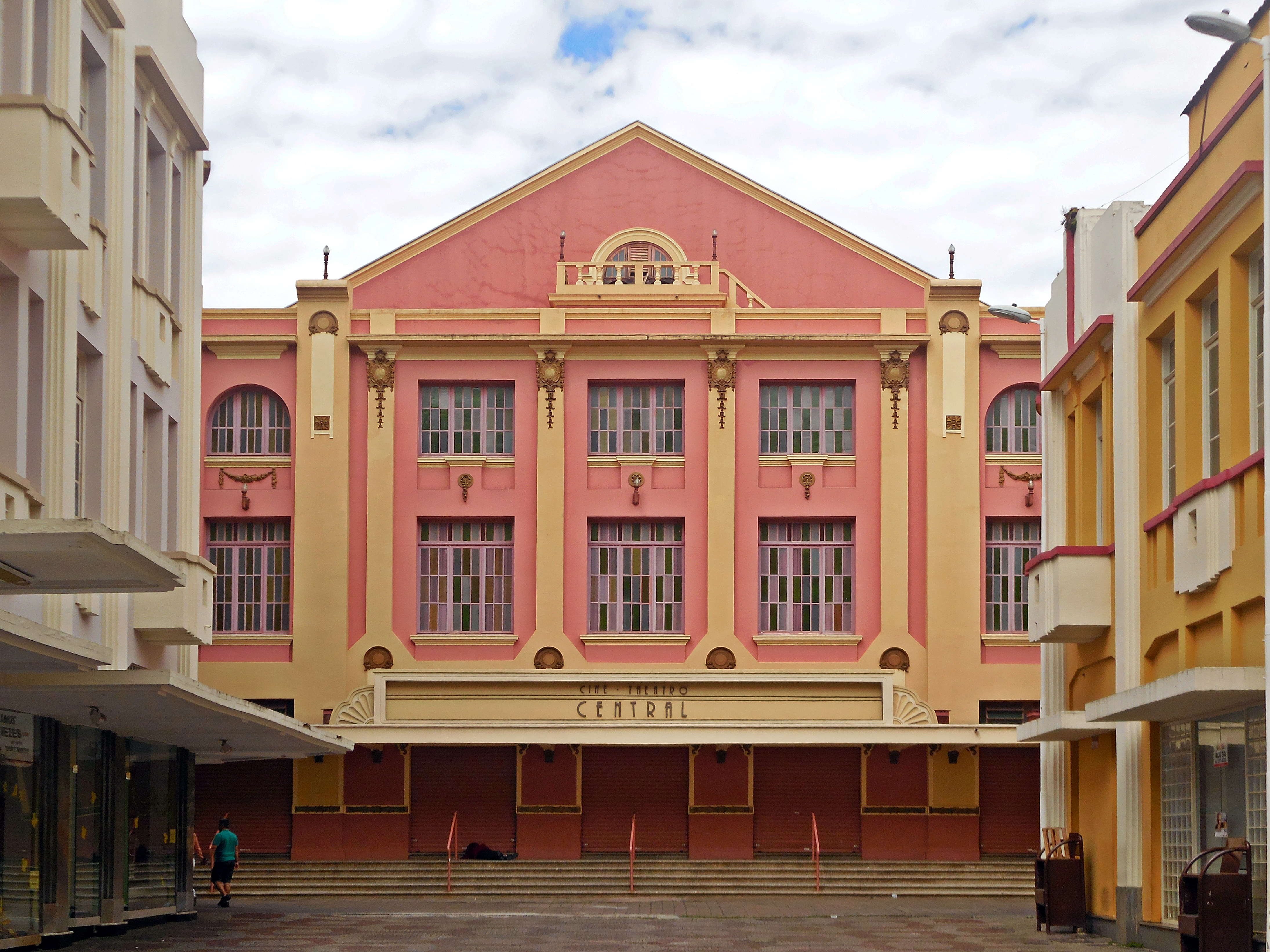 View of the Cine-Theatro Central, in Juiz de Fora, Minas Gerais, Brazil.